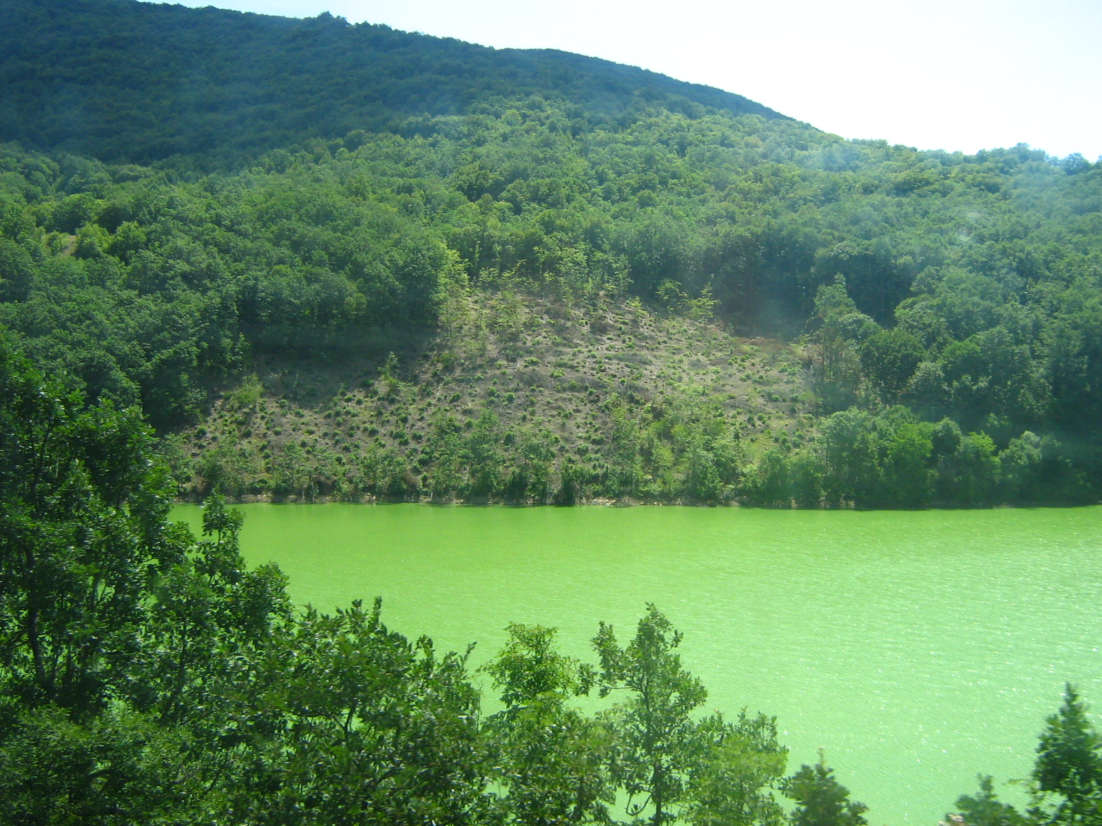 Spilje Hydro Power Plant in the period of algal bloom